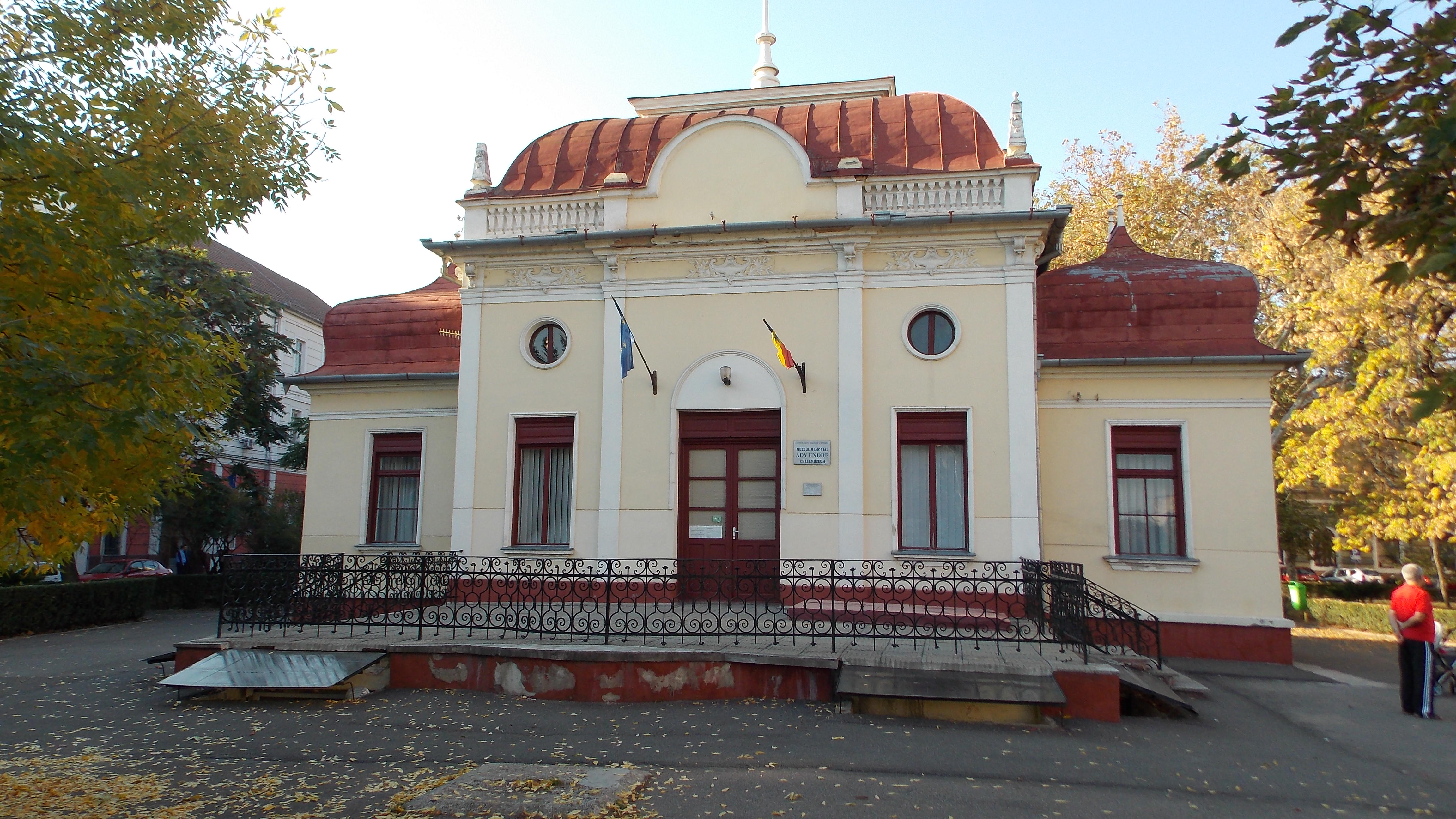 Ady Endre Museum - OradeaRomână: Muzeul Ady Endre- Oradea